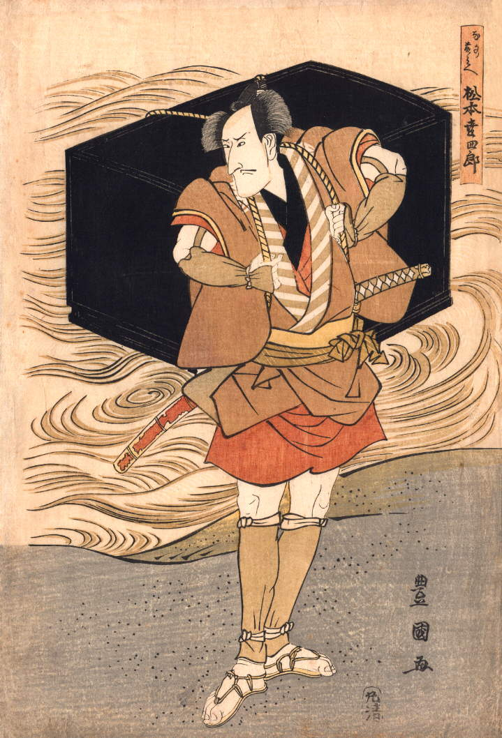 The Kabuki actor Matsumoto Koshiro V